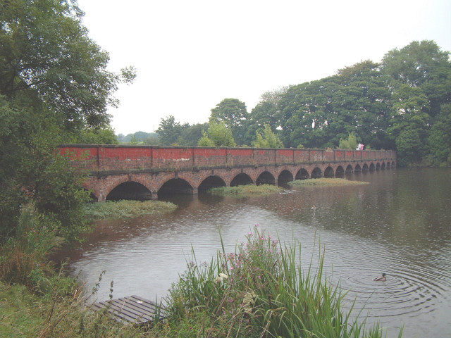 Carr Mill Dam. The arched bridge across the northern part of the dam